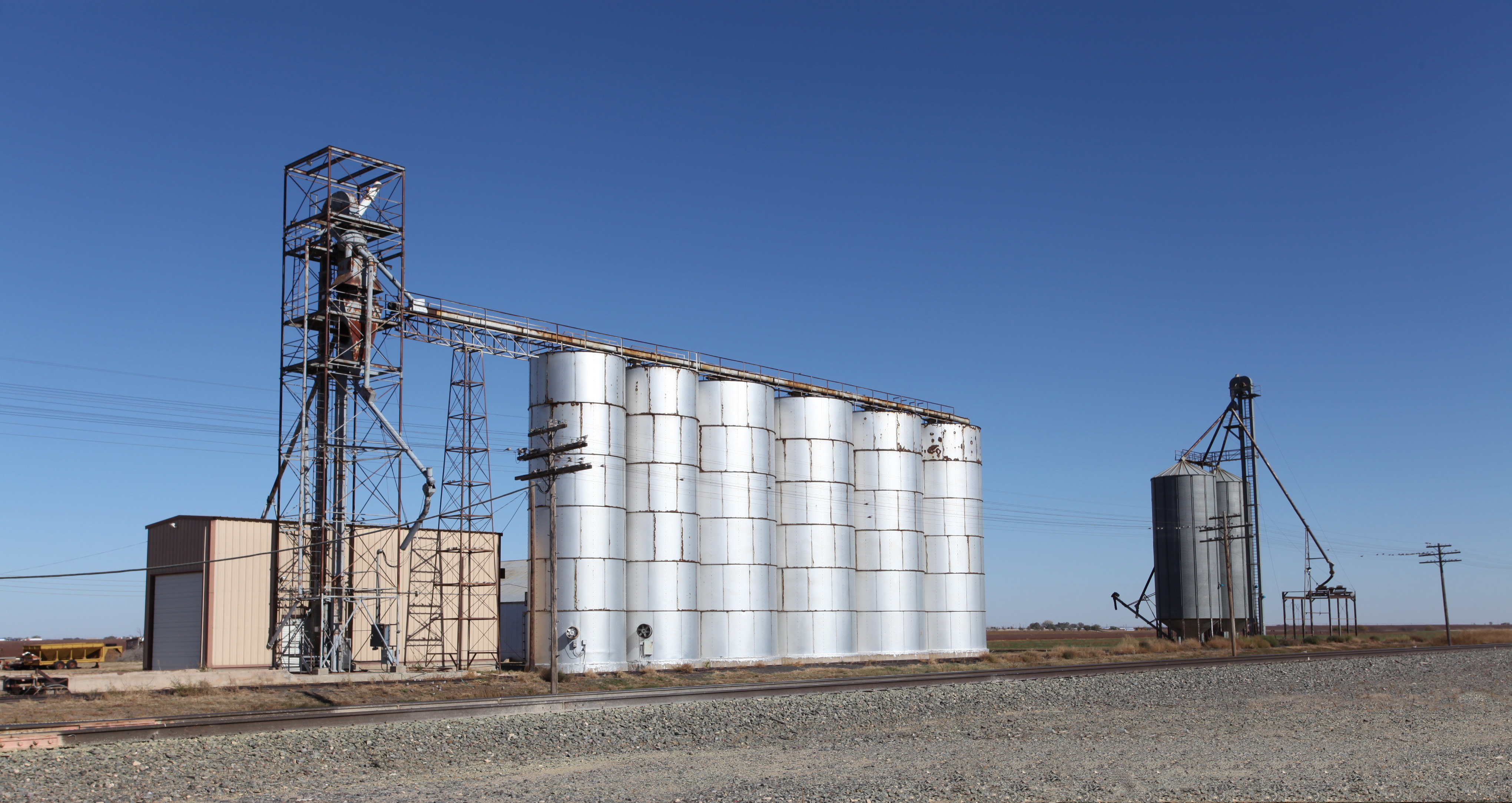 Small grain elevators alongside the BNSF tracks, Amherst, Texas.